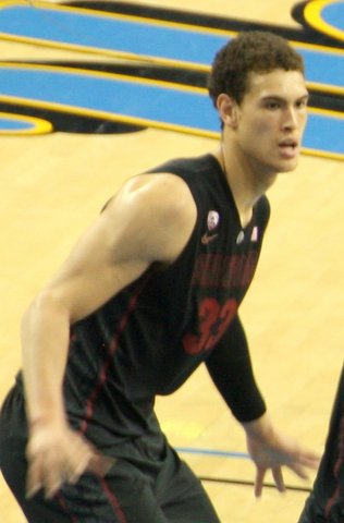 Dwight Powell of Stanford Cardinal